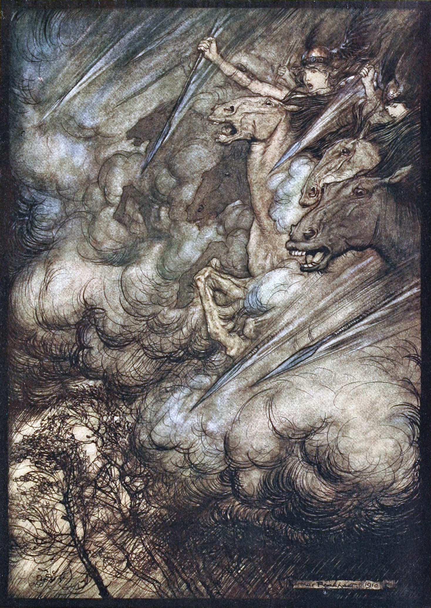 The ride of the Valkyries